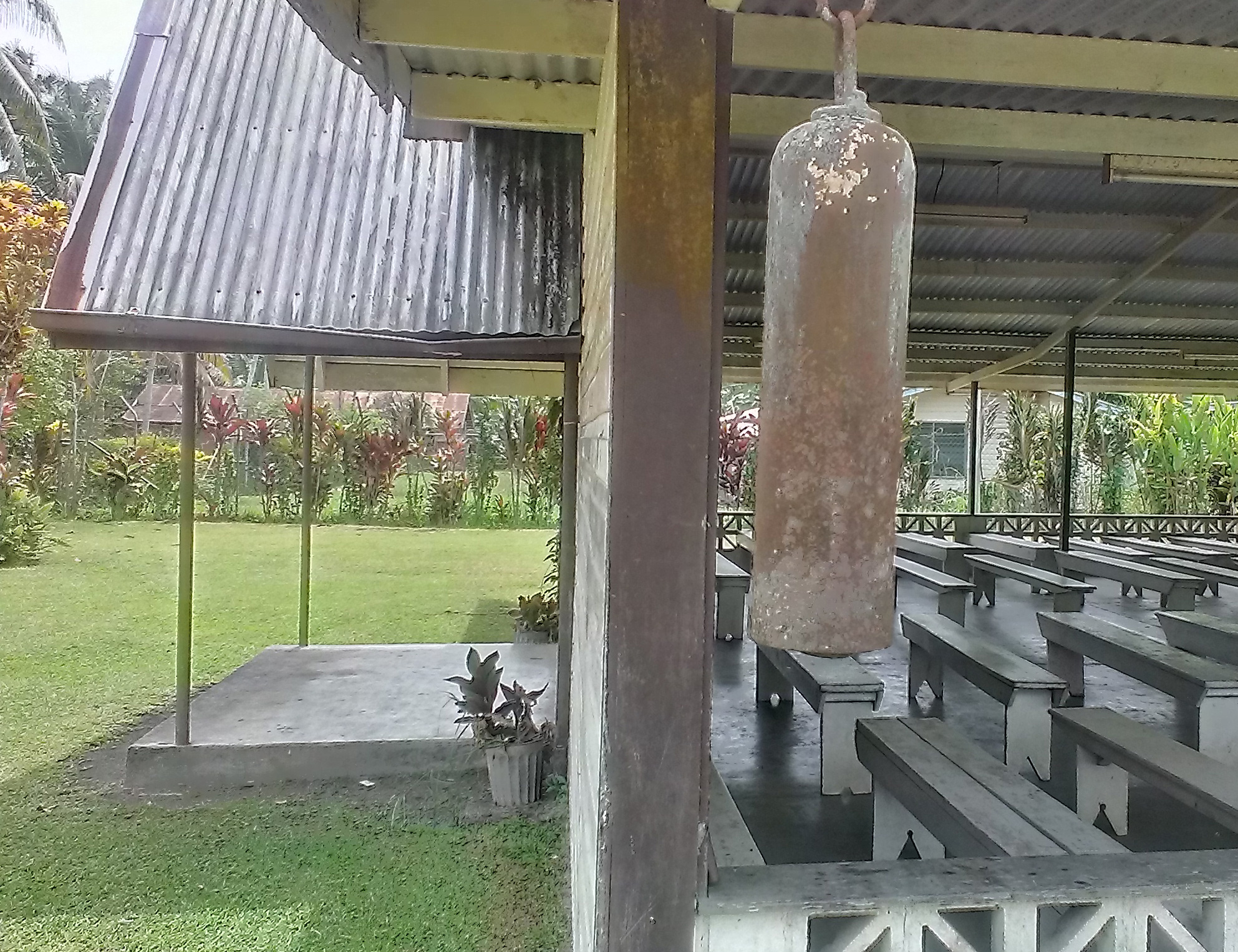 Photo of the original bell at the Lutheran Church at Malahang Mission Station, Lae, Morobe Province. Photo taken 30 January 2014